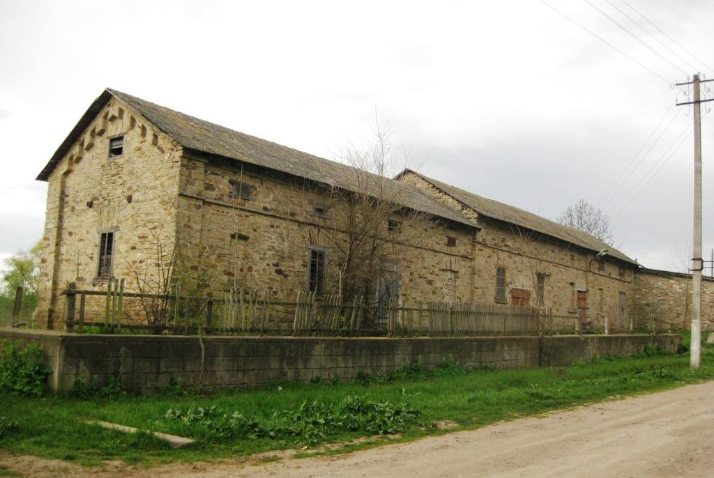 Image of Vinogradski mansion in Iarova, Soroca DistrictRomână: Vedere a conacului Vinogradski din Iarova, raionul Soroca